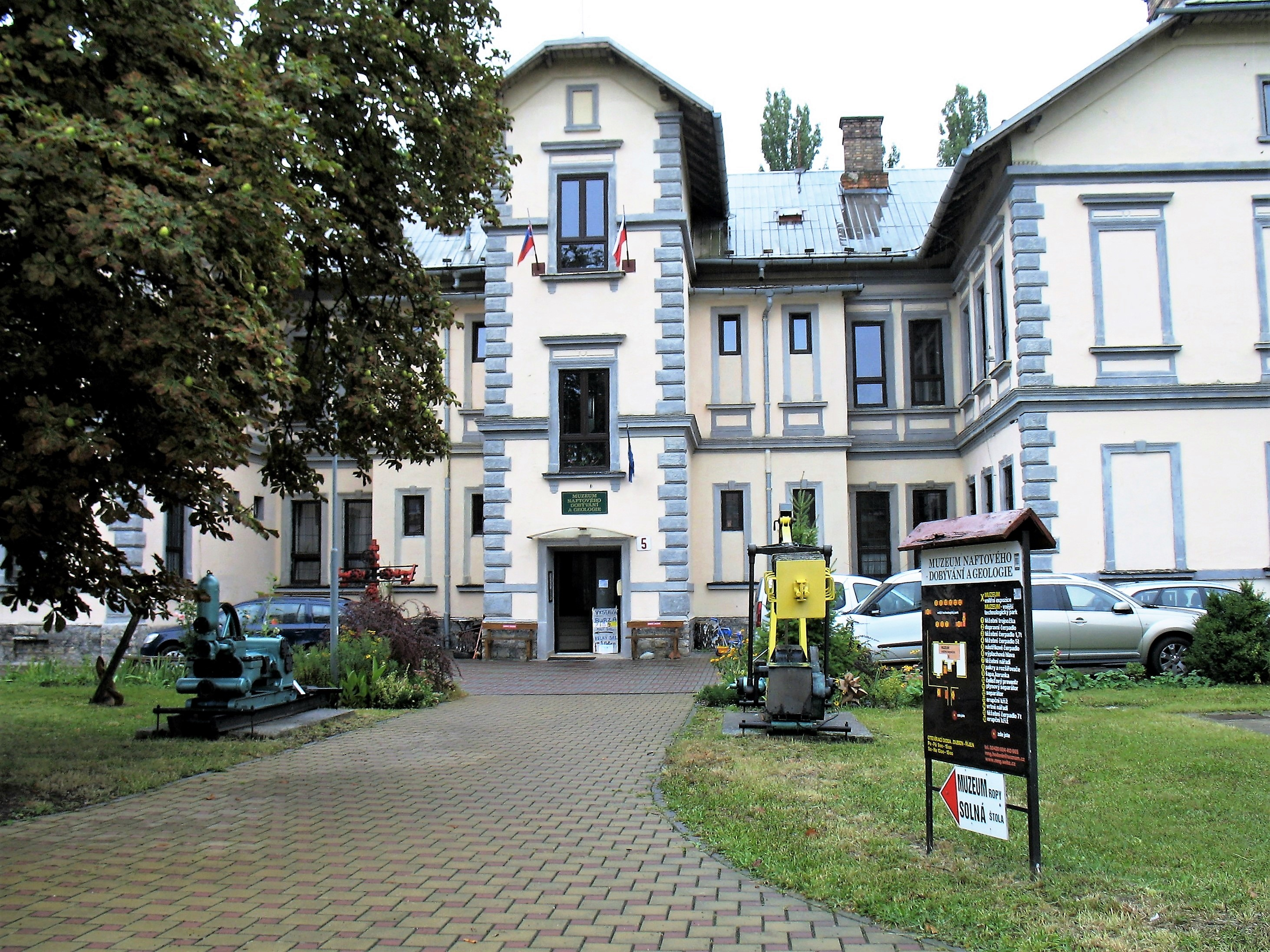 Museum of petroleum engeneering and geology in Hodonín, Czech Republic